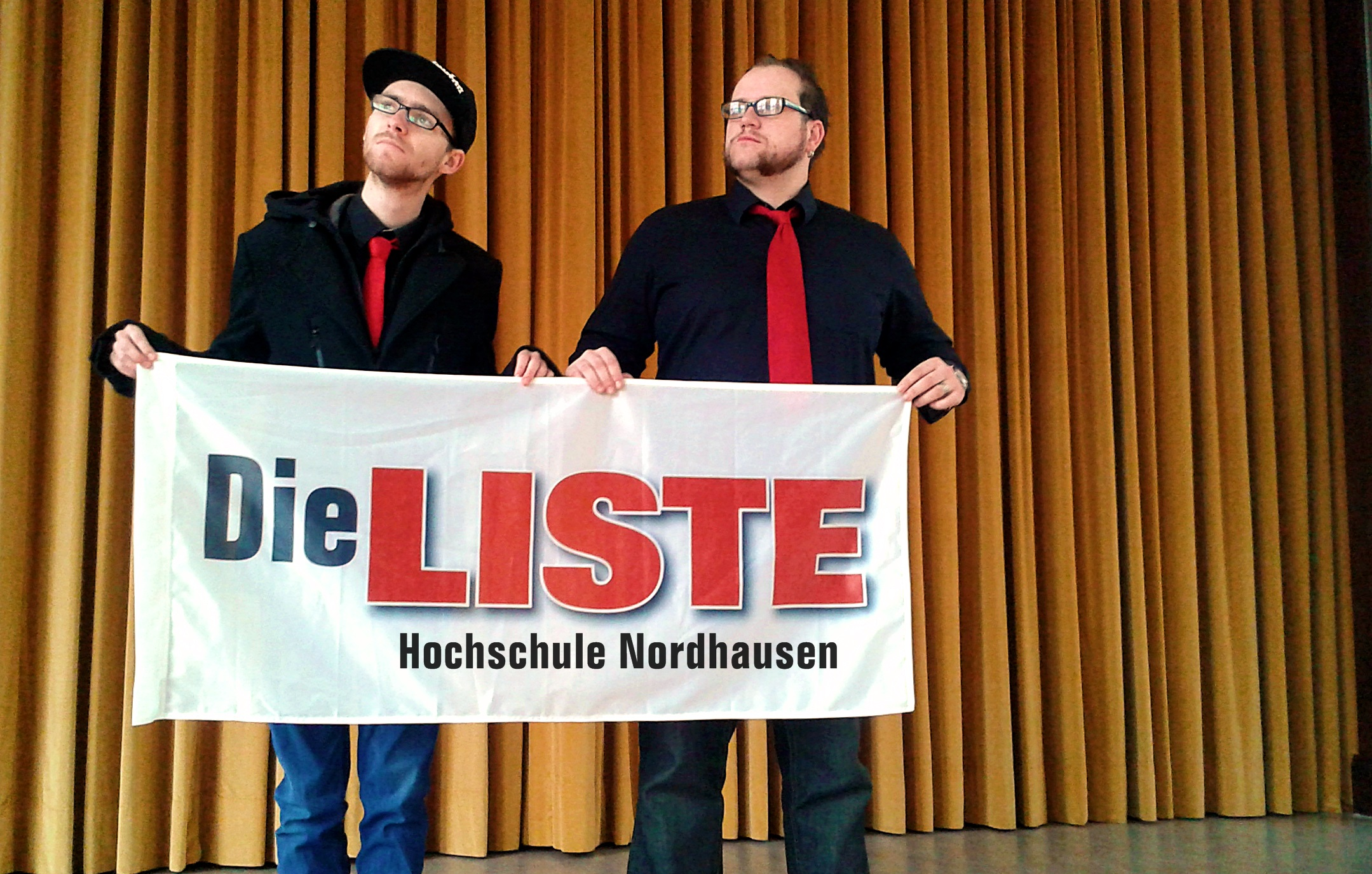 Gründer von Die LISTE Nordhausen.